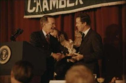 PRESIDENT AND MRS. BUSH DROP BY THE NEW JERSEY STATE CHAMBER OF COMMERCE DINNER AT THE SHERATON WASHINGTON HOTEL. THE PRESIDENT ADDRESSES THE GROUP AND ACCEPTS A PRESENTATION OF AN EAGLE STATUE FROM GOV. THOMAS KEAN.